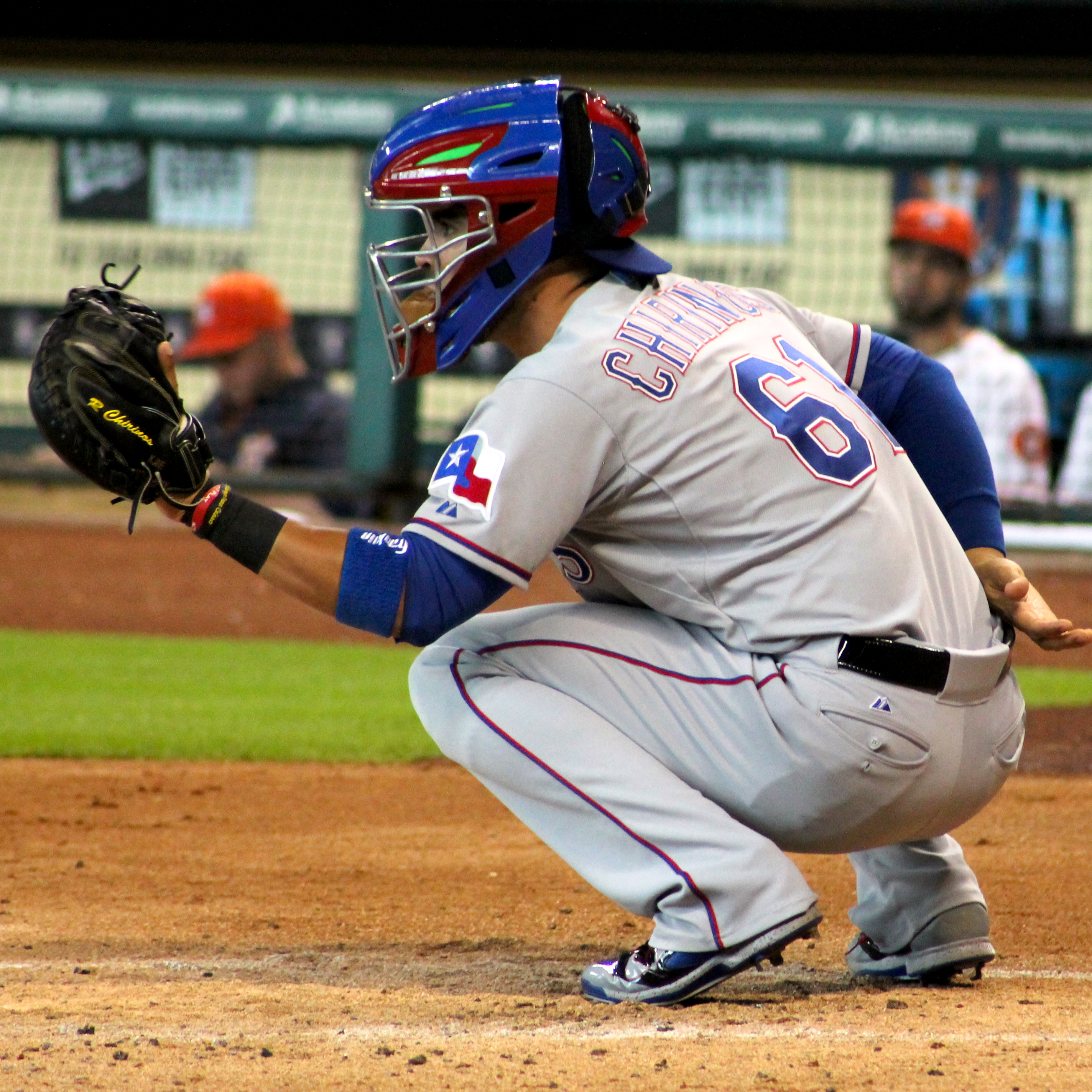 Professional baseball player Robinson Chirinos during an August 2014 game at Minute Maid Park.